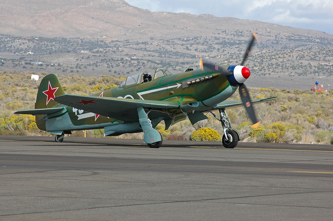 The Yakovlev Yak-9U-M, FAA registration number NX1157H. Photographed in Reno, Nevada.